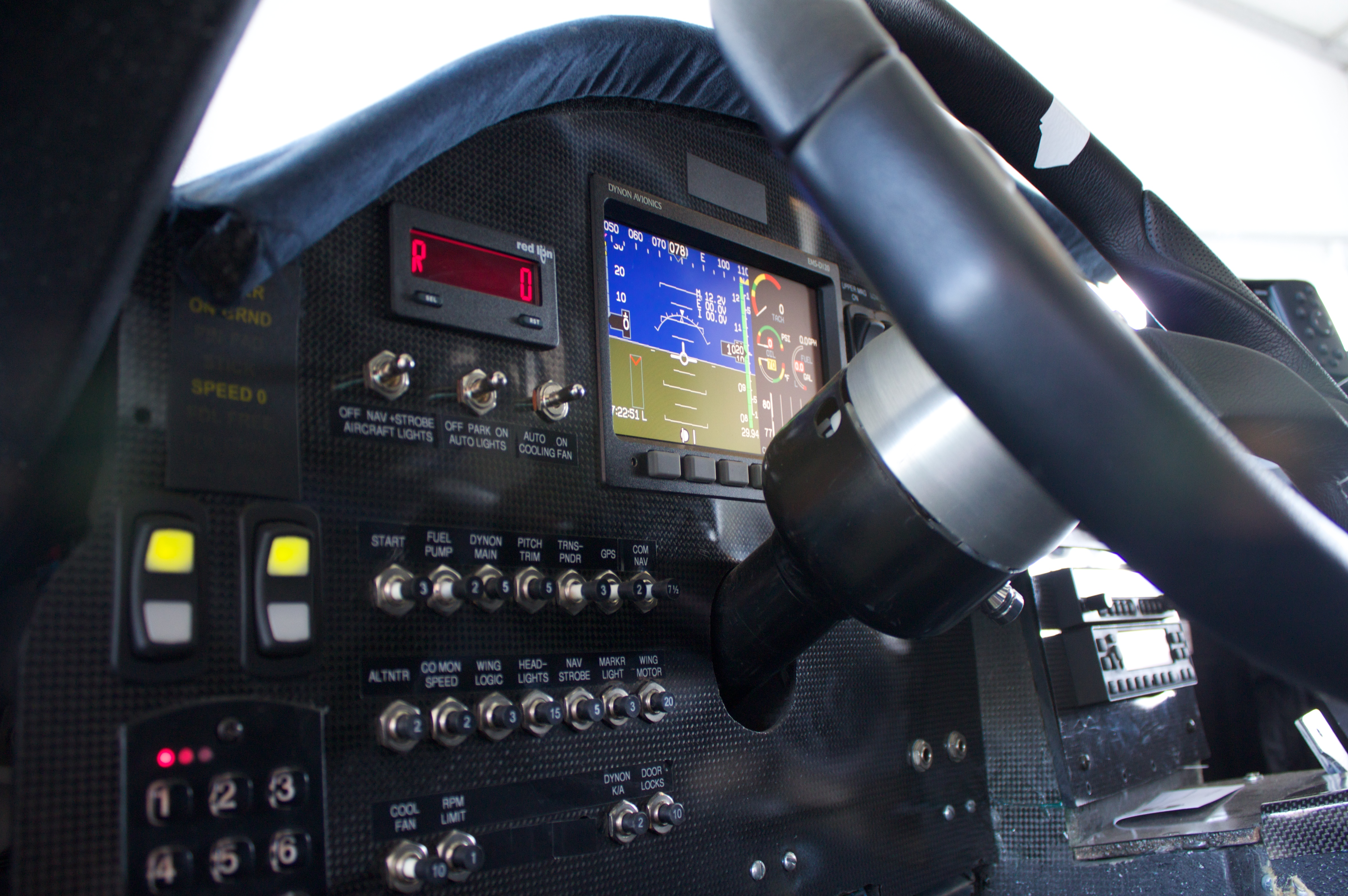 Airventure Day 4 - Tuesday